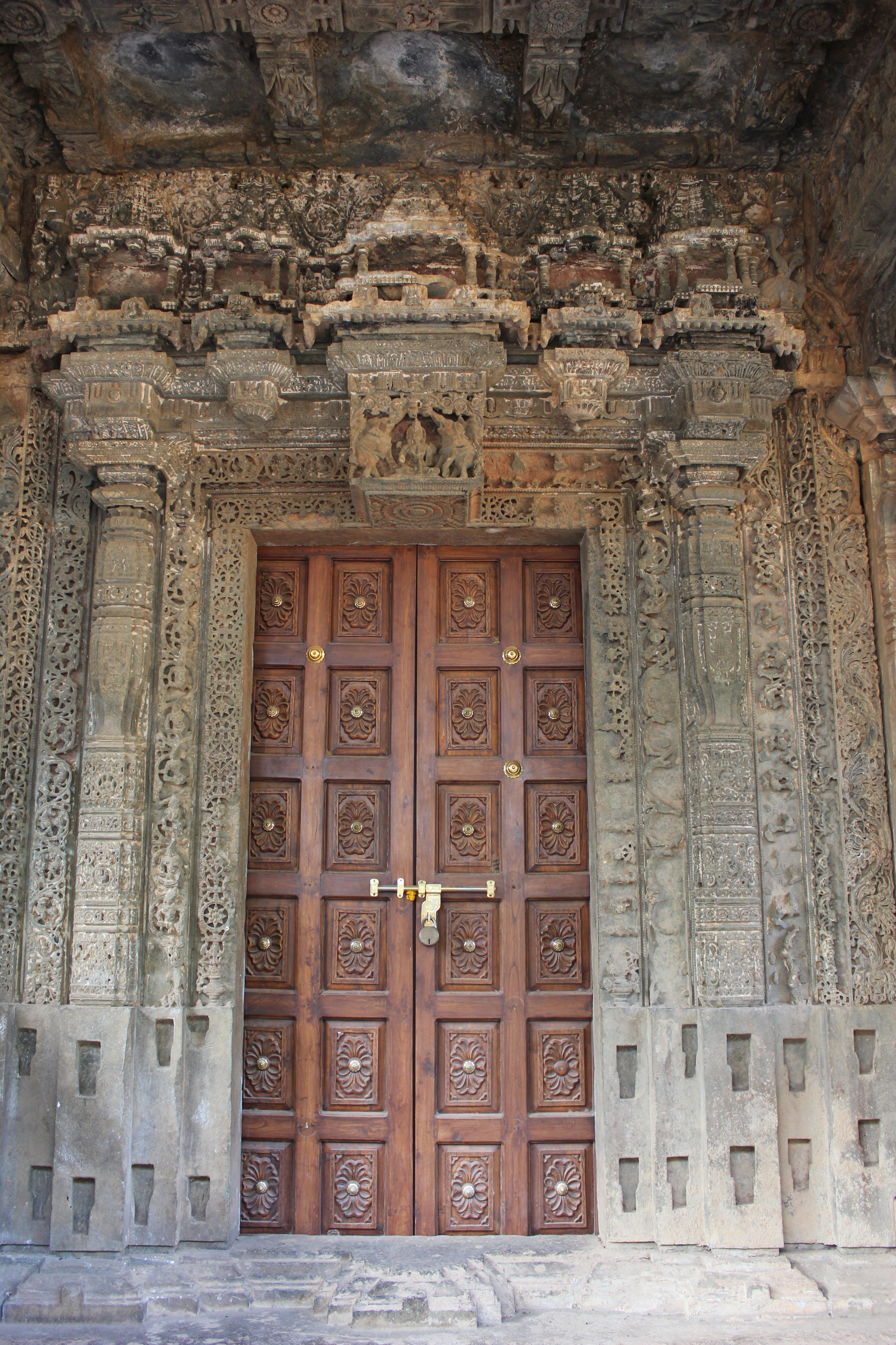 The Nagareshvara temple (also called Aravattu Kambada Gudi literally meaning "60 pillared temple") was built by the Kalyani (western) Chalukyas in the late 11th century - early 12th century AD during the rule of King Vikramaditya VI. Bankapura is a town located in the Haveri district of the Karnataka state, India.